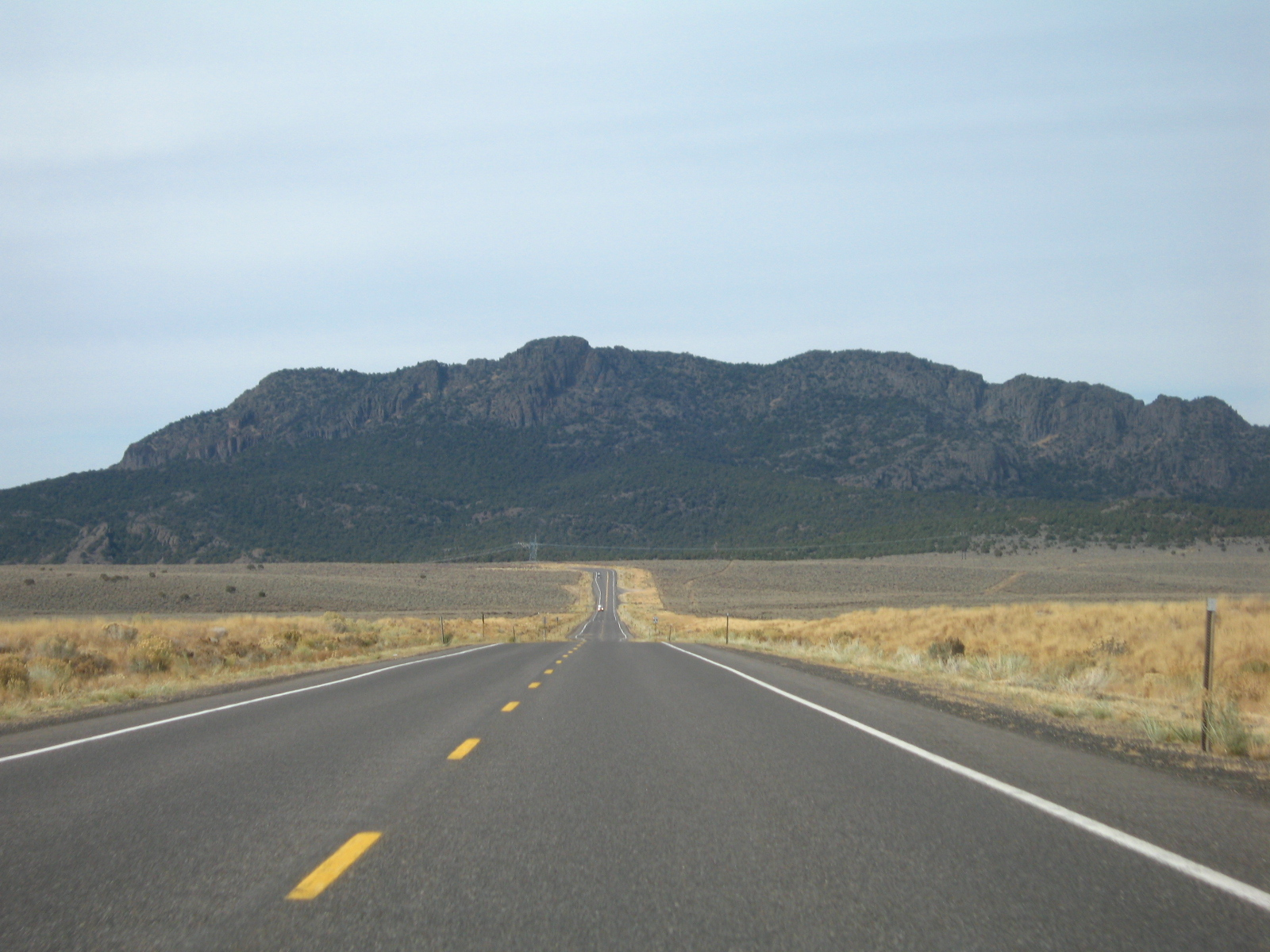 Looking northeast along Utah State Route 20 (toward Anderson Mountain) in the Buckskin Valley in eastern Iron County, Utah, November 2009